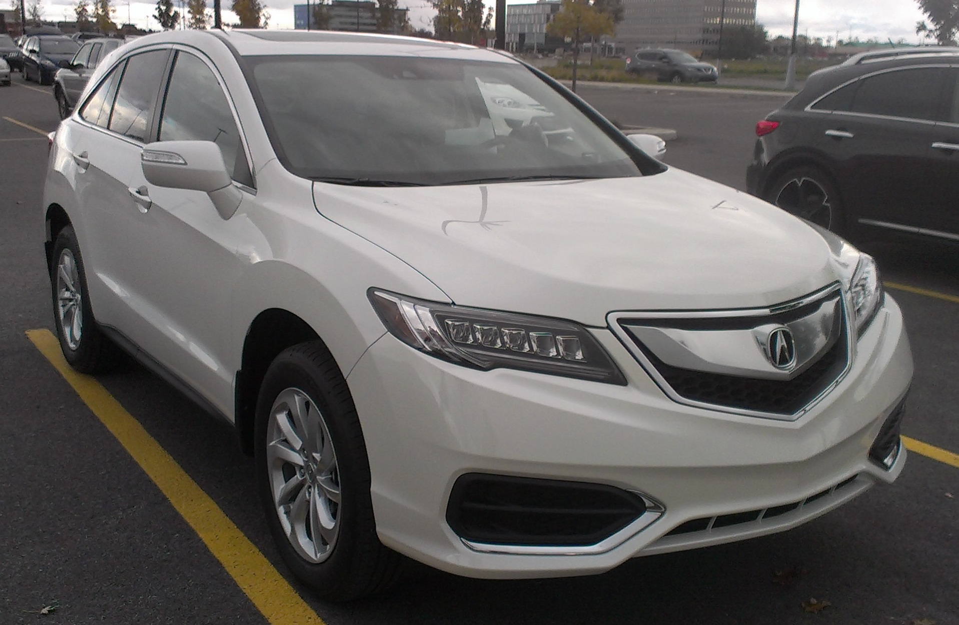 Acura RDX of 2016 photographed in Laval, Quebec, Canada.